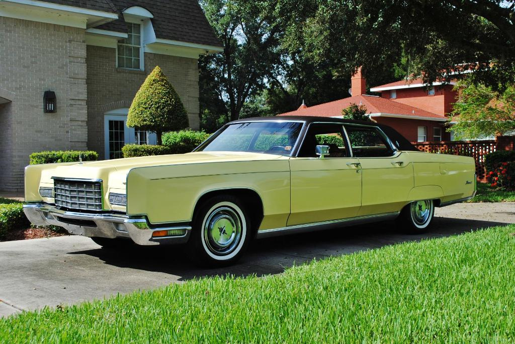 Front 3/4 view of a 1972 Lincoln Continental 4-door sedan